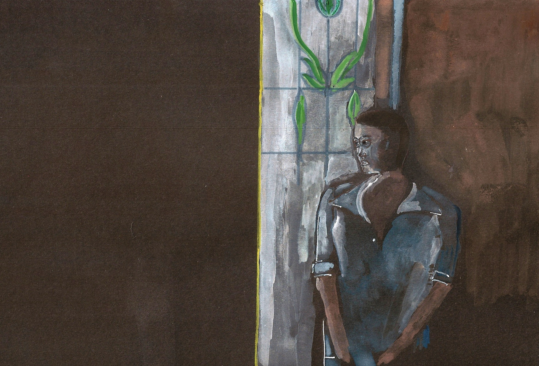 This is a watercolor done by Dr. Amitabh Mitra of Tembeka, a girl from the township of Mdantsane in South Africa. The watercolor was done in December 2009.